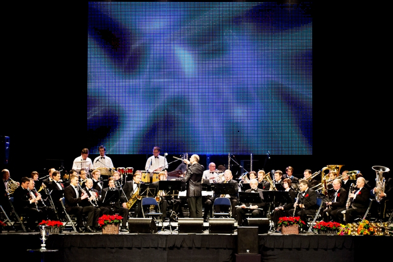 Orkestras Trimitas